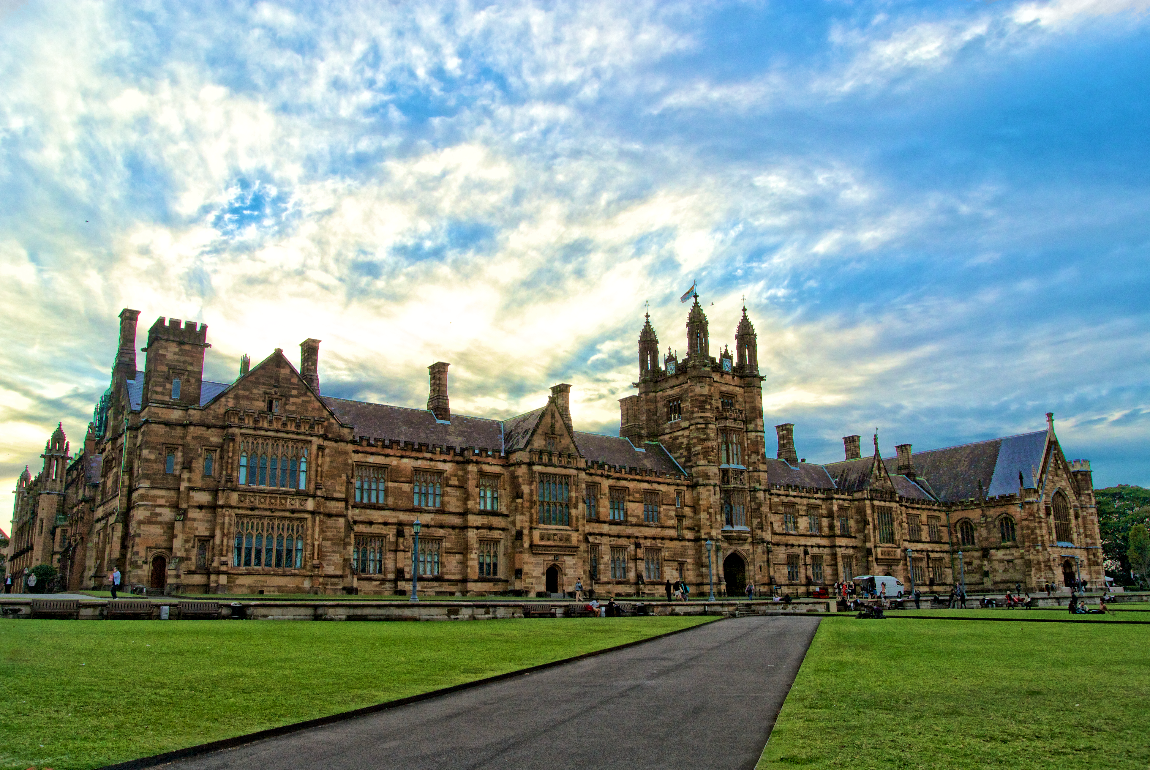 Sydney University's neo-gothic Main Quadrangle designed by architect Edmund Blacket and completed progressively in sections.